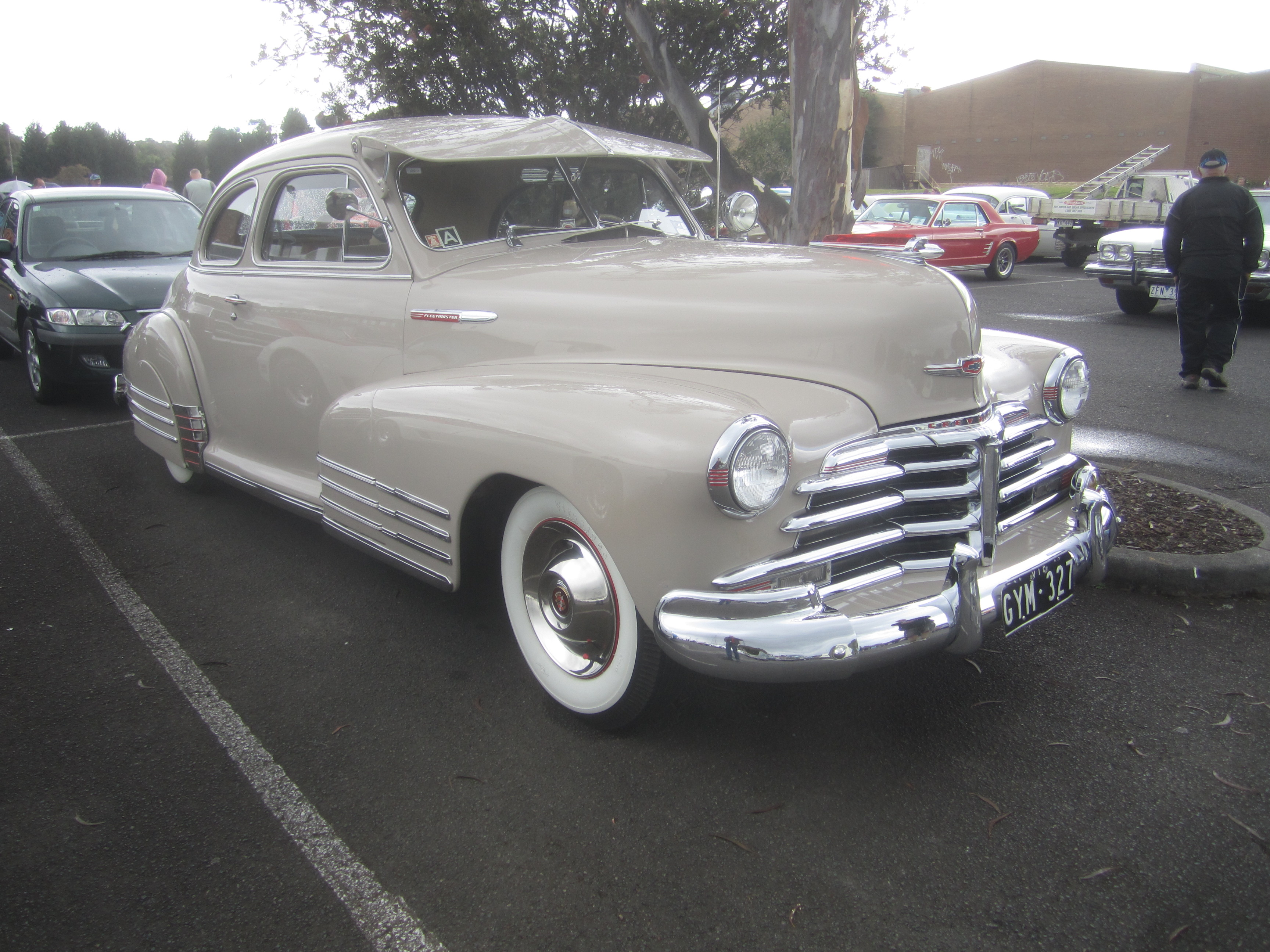 1948 Chevrolet Fleetmaster Sport Coupe. This example has the additional triple fender mouldings which were a feature of the Fleetline sub-series models Production started again in 1946, after World War II had ended, the Chevrolet was very similar to the 1942 car with only a new grille. The belt line mould and the grille changed for 1947 and again in 1948 but apart from that very similar to 1942. Available in base Stylemaster, Fleetmaster and the fastback styled, Fleetline. Bodys; Sedan, Coupe, Convertible, Wagon and Delivery Chevrolets were also produced in Australia by General Motors using modified American bodies from 1926-68. Engine; 216 cu in Victory 6